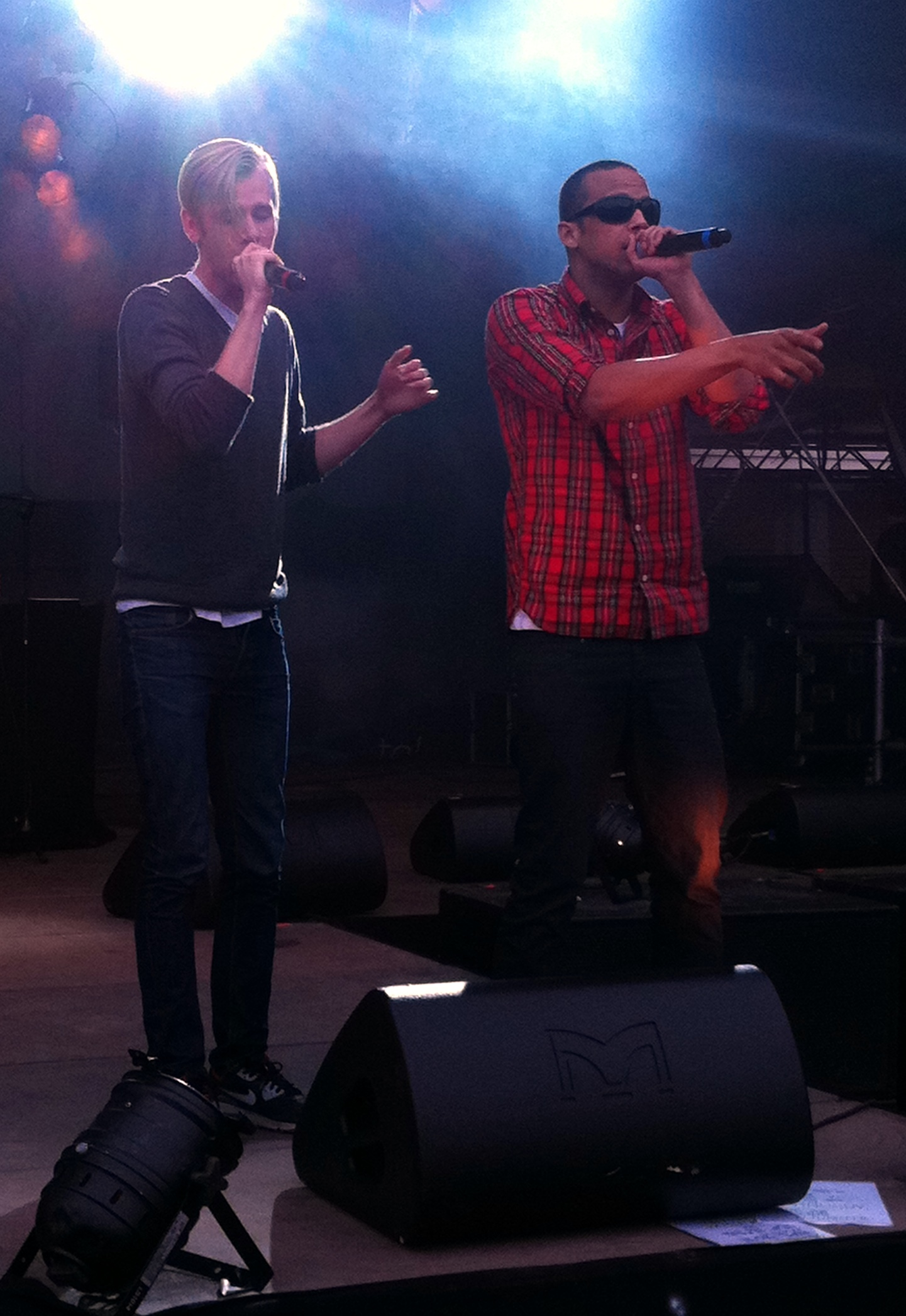 Norwegian hiphoper Lars Vaular